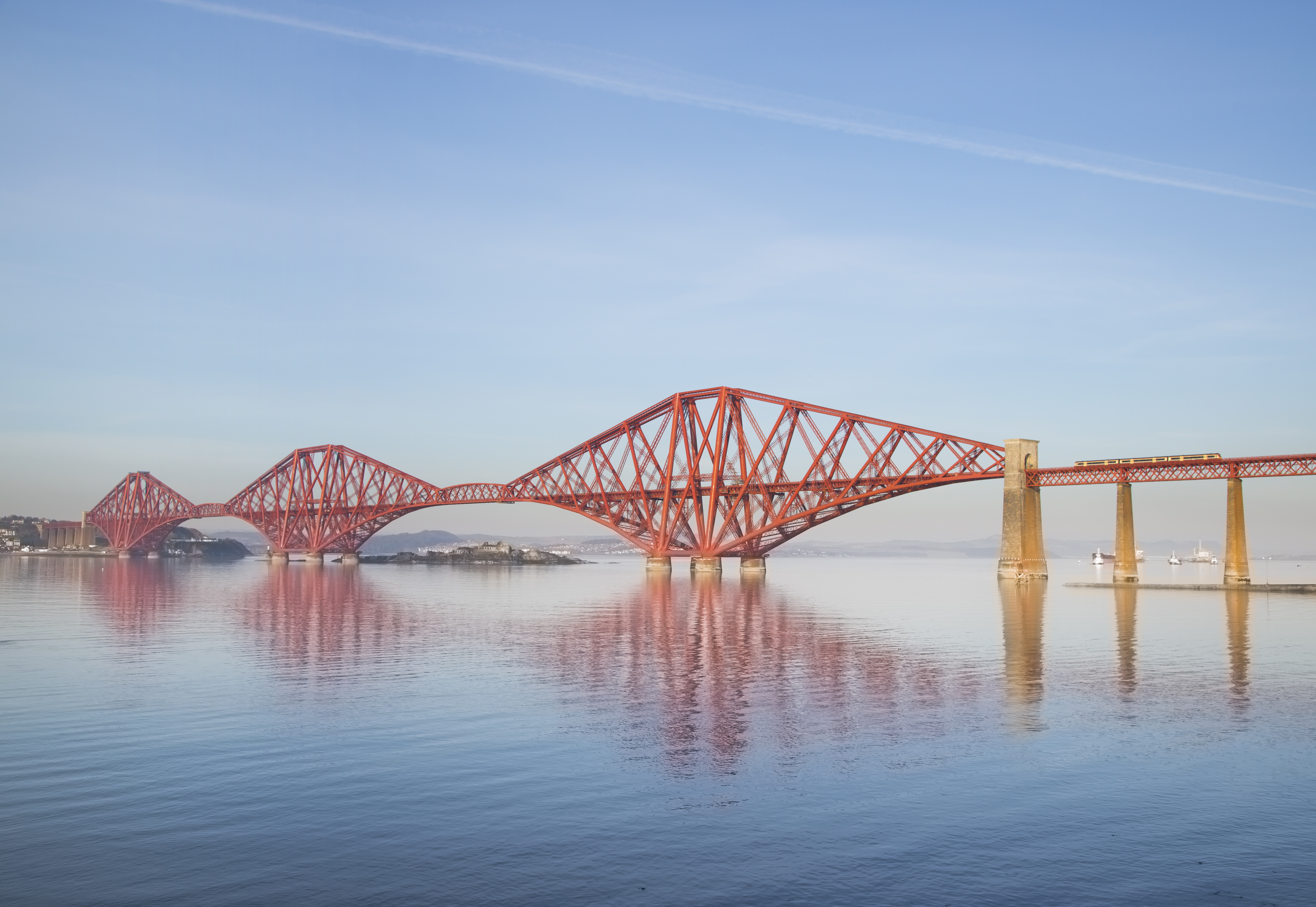 The Forth Rail Bridge seen from the promenade in South Queensferry on a sunny afternoon.